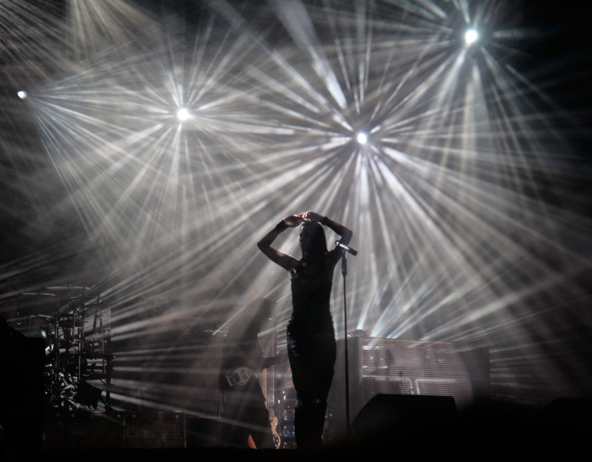 Christina Stürmer & Band at the Donauinselfest 2009